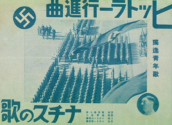 Album cover of a Japanese record published by Nitto Records タイヘイレコード containing a Nazi parade song. Hakushū Kitahara (北原白秋) wrote the lyrics for a welcome song for the 1938 Hitlerjugend delegation.